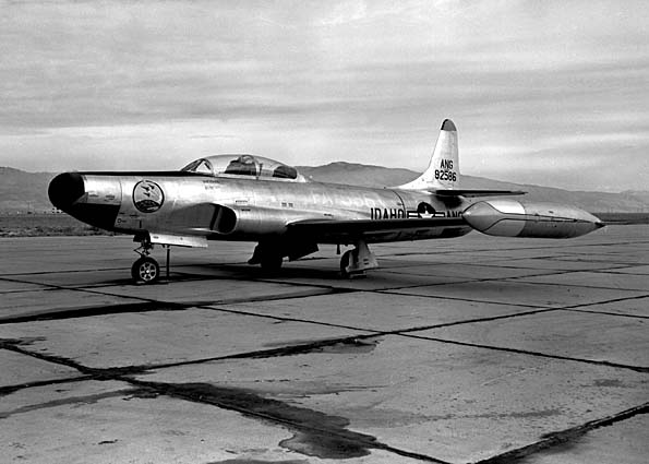 A U.S. Air Force Lockheed F-94A-5-LO Starfire (s/n 49-2586) from the 190th Fighter Interceptor Squadron, Idaho Air National Guard.